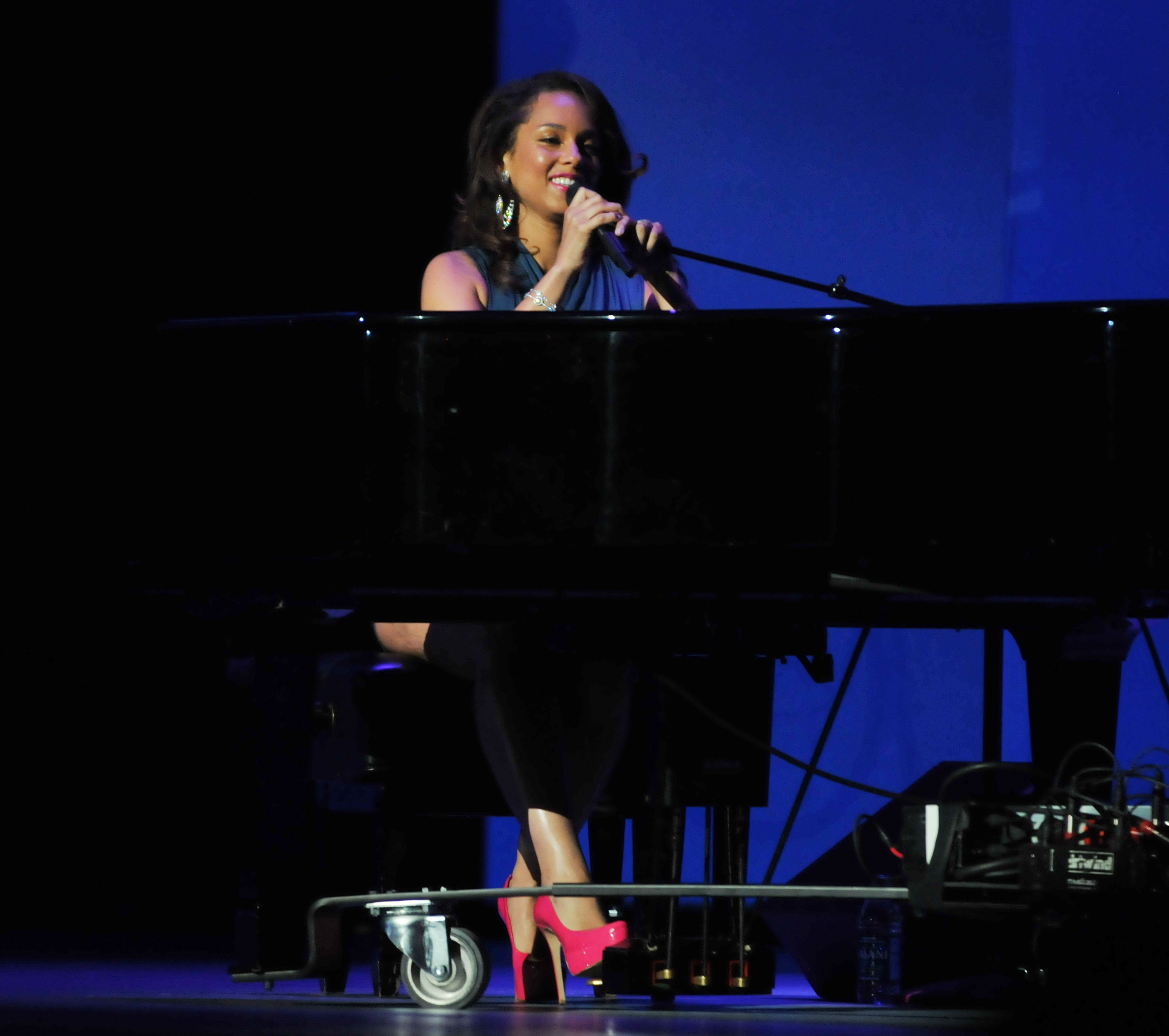 Alicia Keys sings at the Walmart Shareholders Meeting 2011 held at the Walton Arena in Fayetteville, Arkansas.